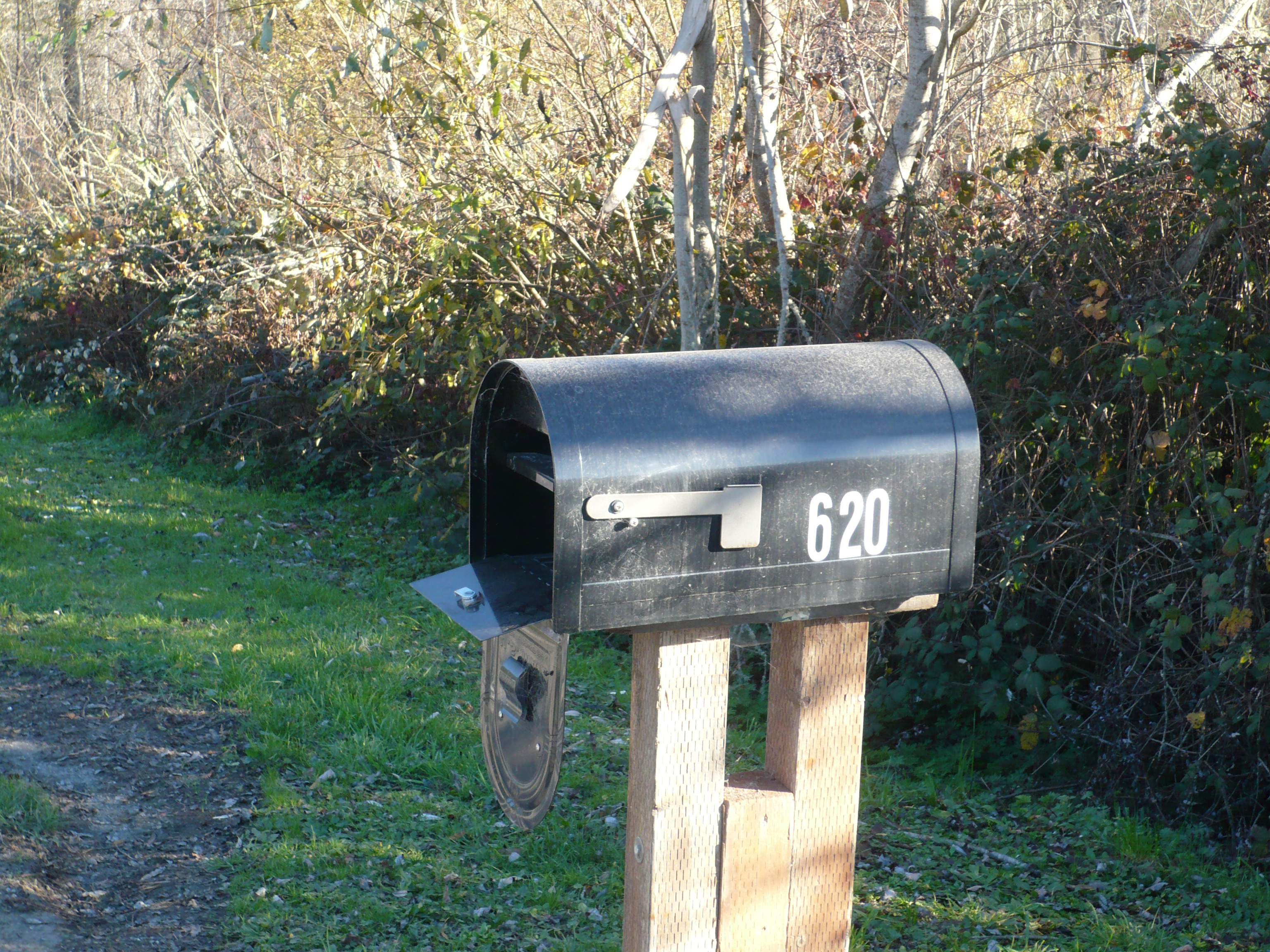 A black mailbox with the number 620 on Davis Street in Rio Dell, California.